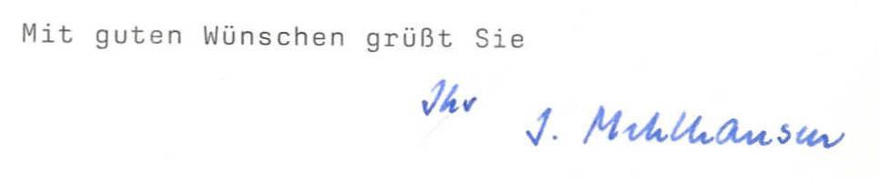 Signature by Prof. Joachim Mehlhausen